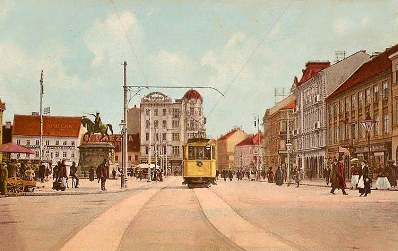 Jelačić square 1911, Zagreb, Croatia